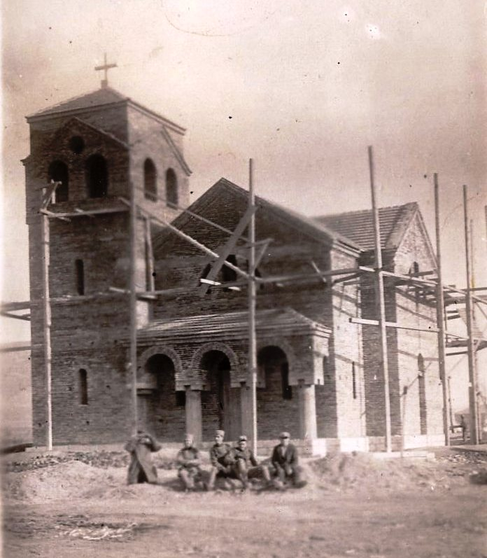 Church of "Virgin Mary" in the village Josifovo, 1931 This media file is produced by Wikipedian in Residence in Category:Wikipedian in Residence at DARM in 2016.